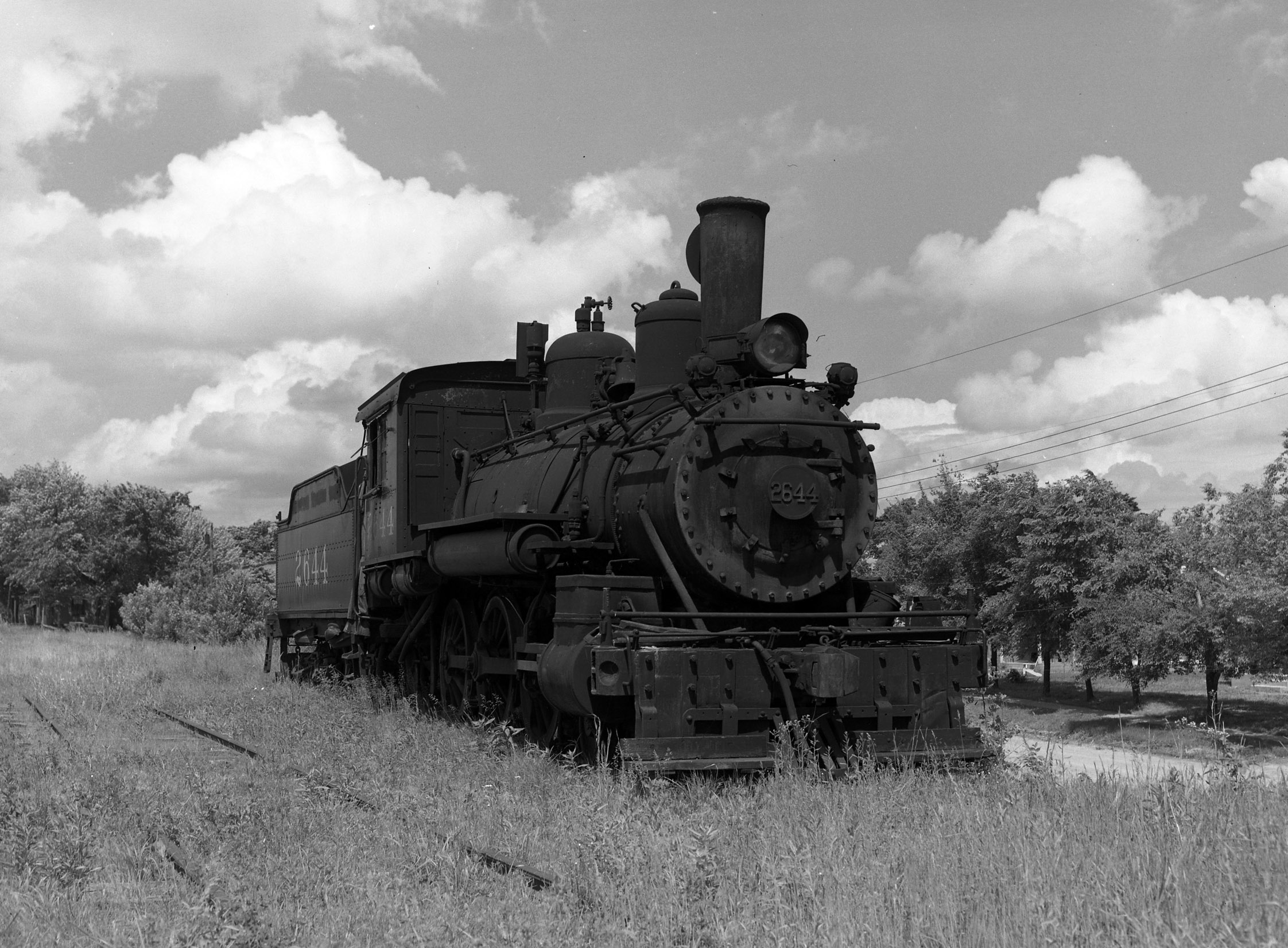 Cassville and Exeter Railroad Number 2644 (MSA) Collection Name: Commerce and Industrial Development Photograph Collection Photographer/Studio: Massie, Gerald R. Description: Train car sits on overgrown tracks. Coverage: United States - Missouri - Ozarks Date: not dated Rights: Copyright is in the public domain. Credit: Courtesy of Missouri State Archives Image Number: CID_048-174 Institution: Missouri State Archives